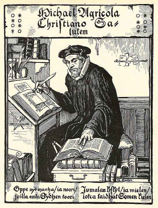 Mikael Agricola, by Albert Edelfelt (1854–1905)